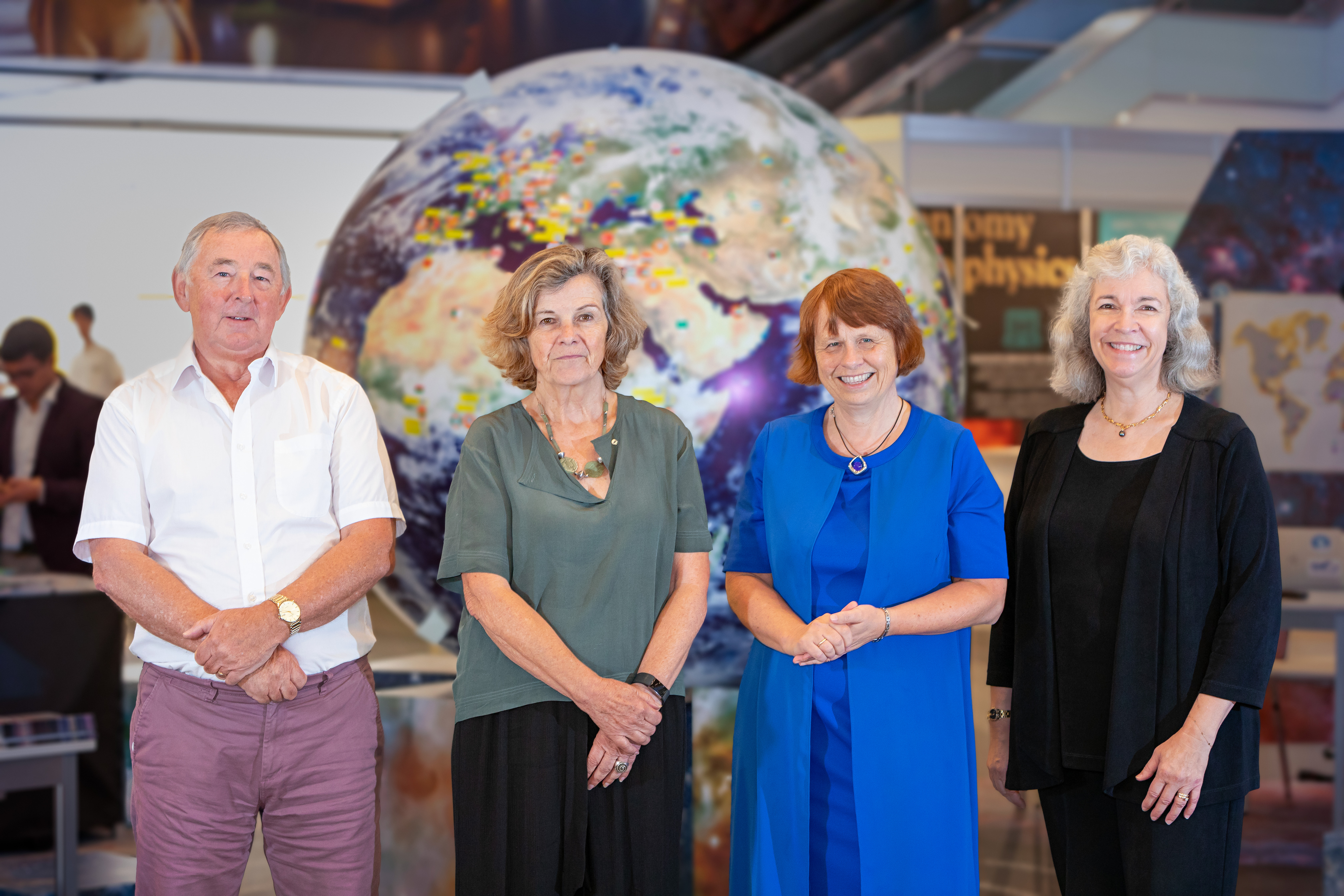 This picture taken during the IAU General Assembly 2018 in Vienna (Austria) features the IAU Officers. From left to right: Prof. Ian Robson, Assistant General Secretary; Prof. Teresa Lago, General Secretary; Prof. Ewine van Dishoeck, President and Prof. Debra Elmegreen, President Elect. More information about the Officers and the Executive Committee can be found on